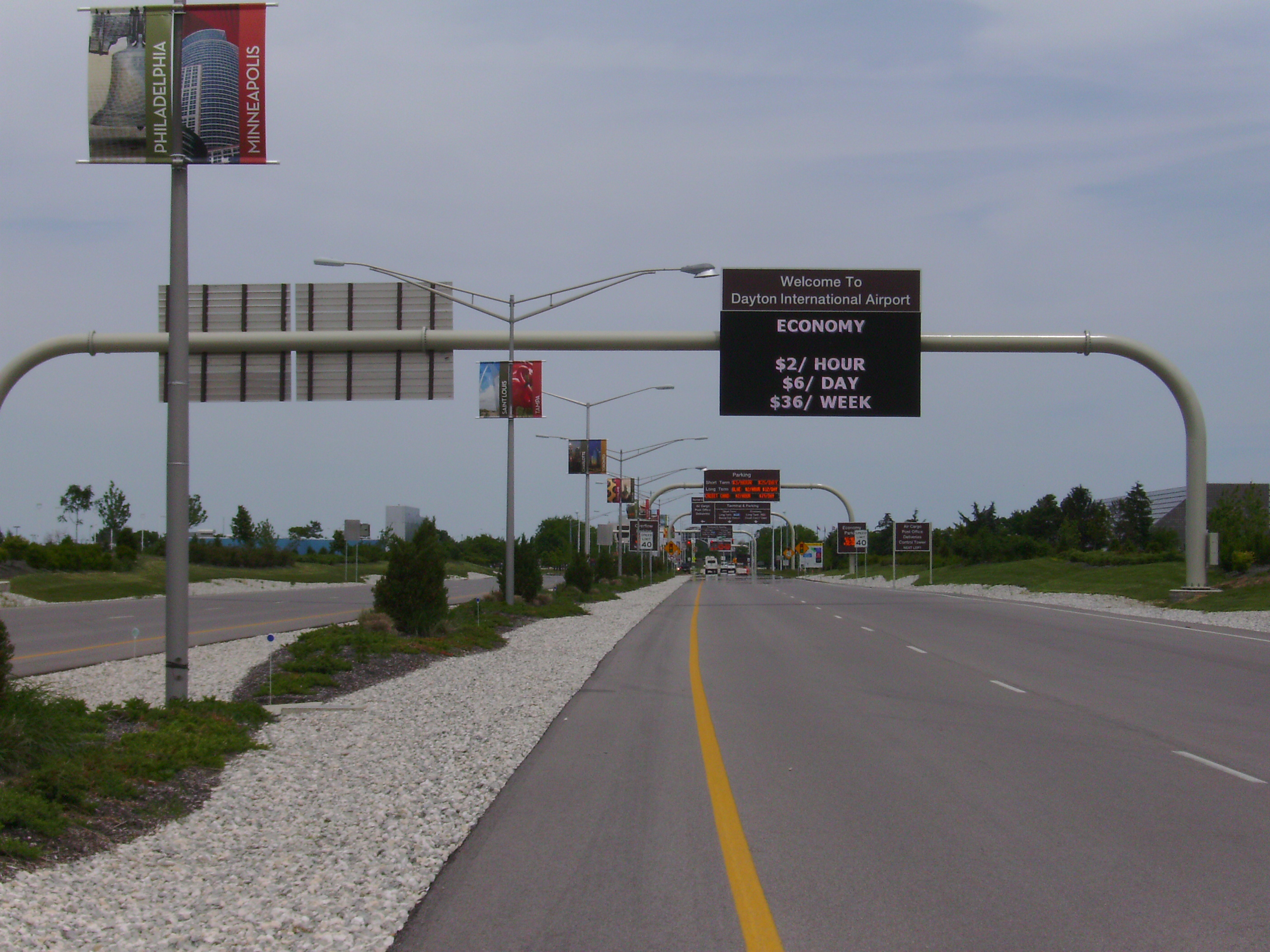 Airport Access Road to Dayton International Airport in Dayton, Ohio.